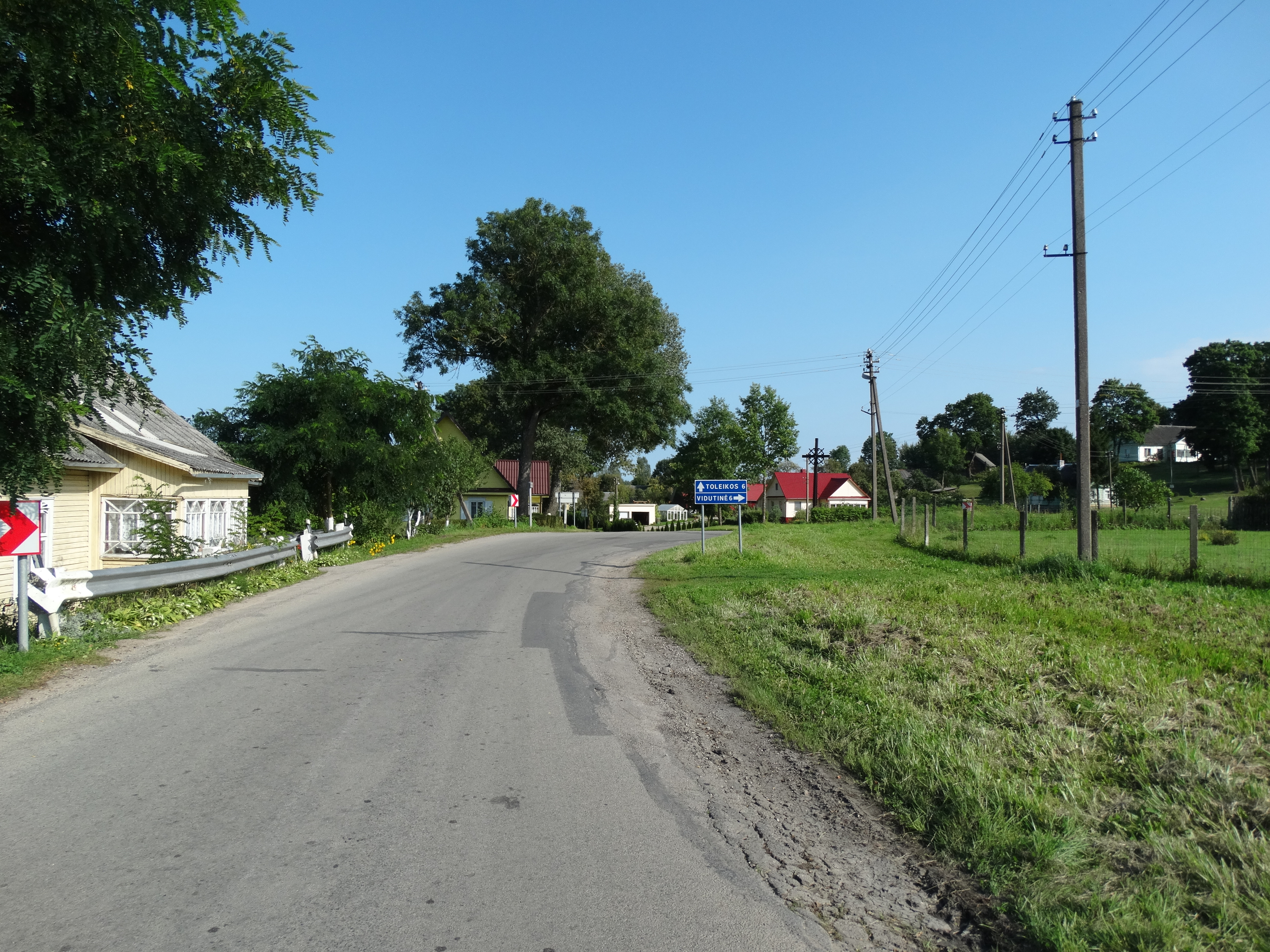 Naujas Strūnaitis, Švenčionys district, Lithuania